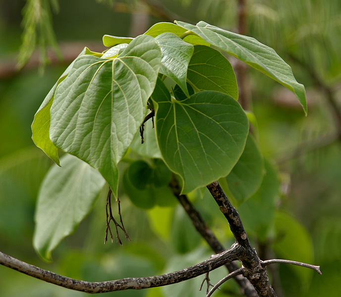 Mundari or Propeller tree Gyrocarpus americanus in Keesara, Rangareddy district, Andhra Pradesh, India.